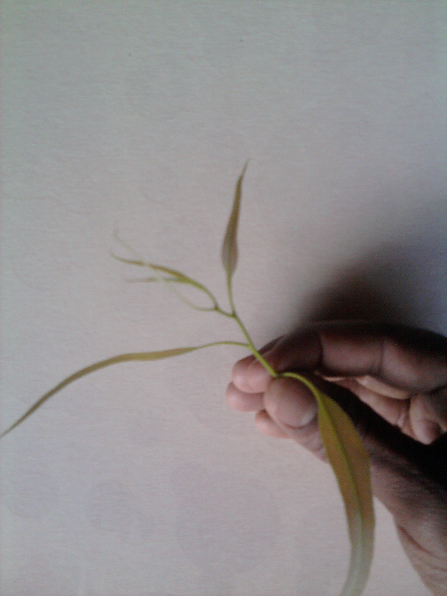 Eucalyptus Leafs